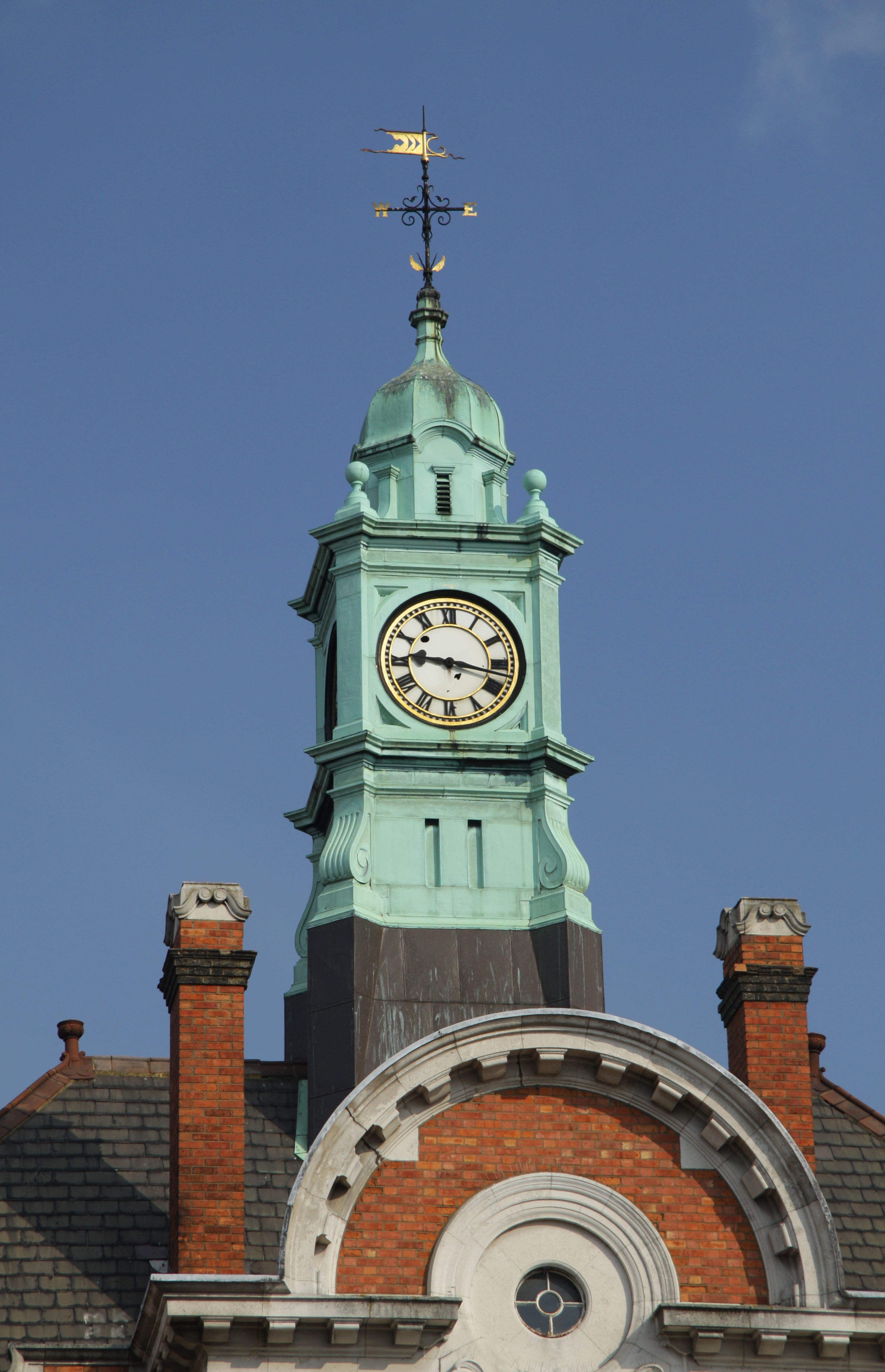 Details of main building of Hammersmith Hospital in London, England, Great Britain